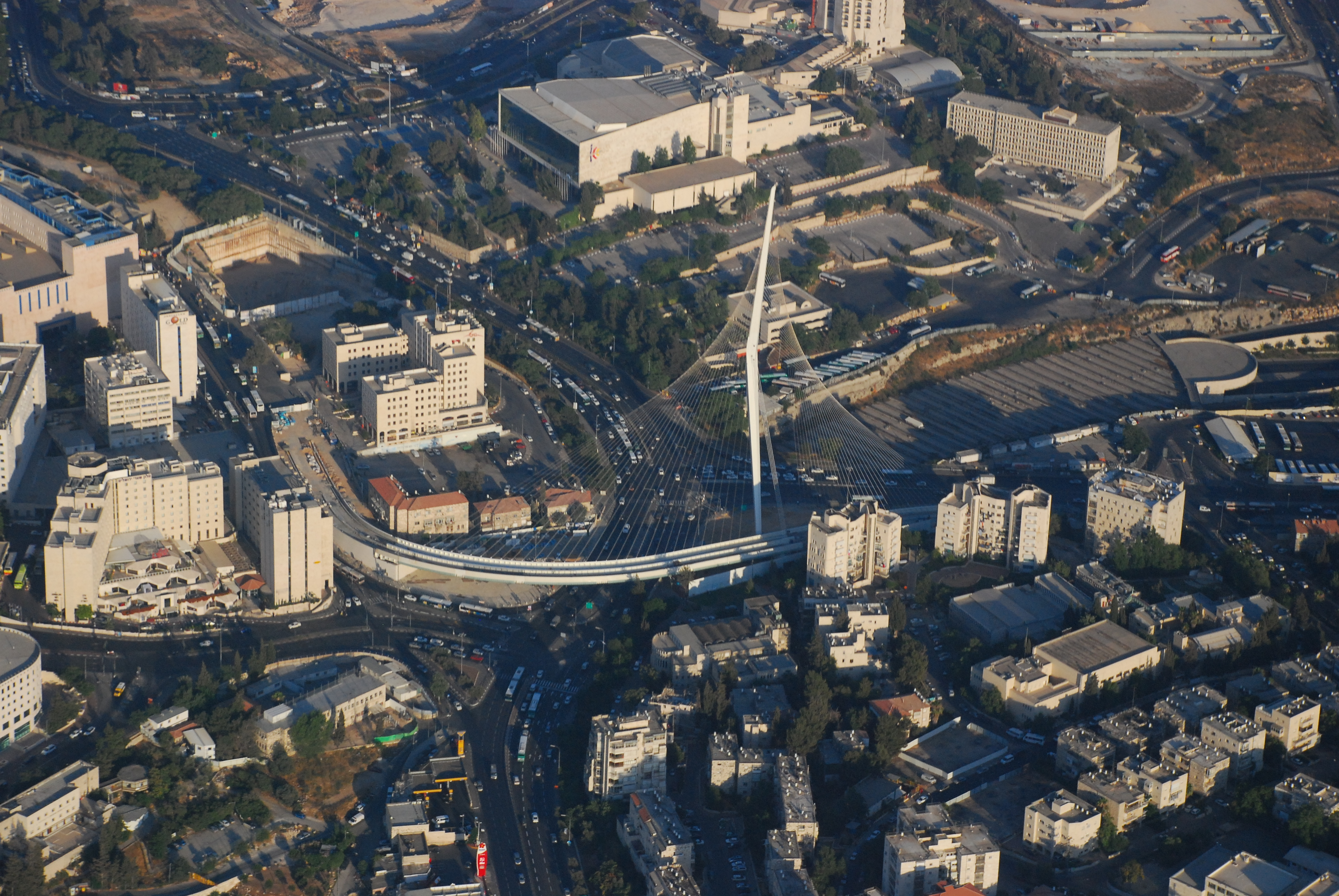 Jerusalem's Chords Bridge. Pictured from a CH-53 Sea Stallion helicopter.